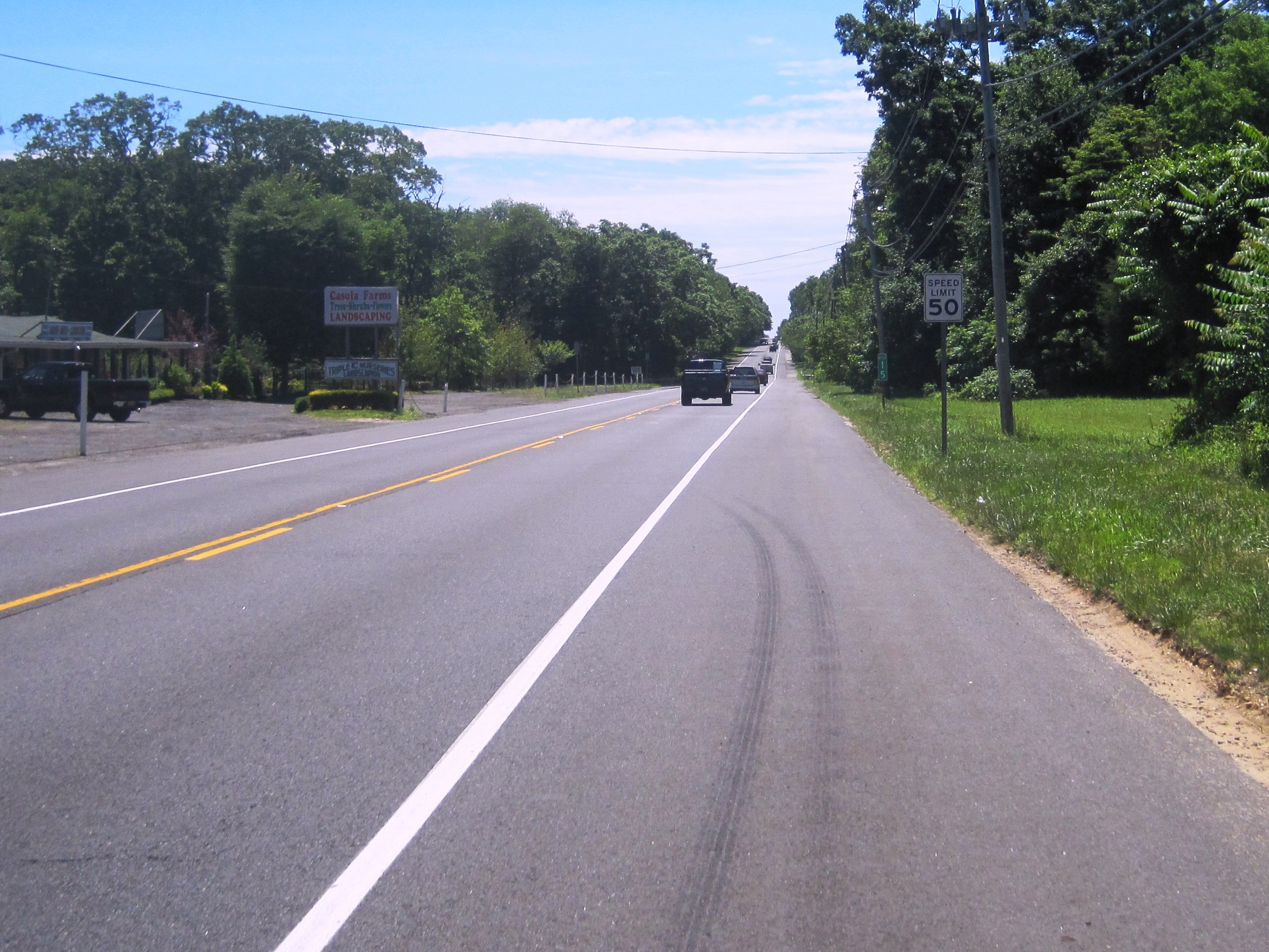 Photograph showing southbound New Jersey Route 34 in Colts Neck Township, New Jersey.